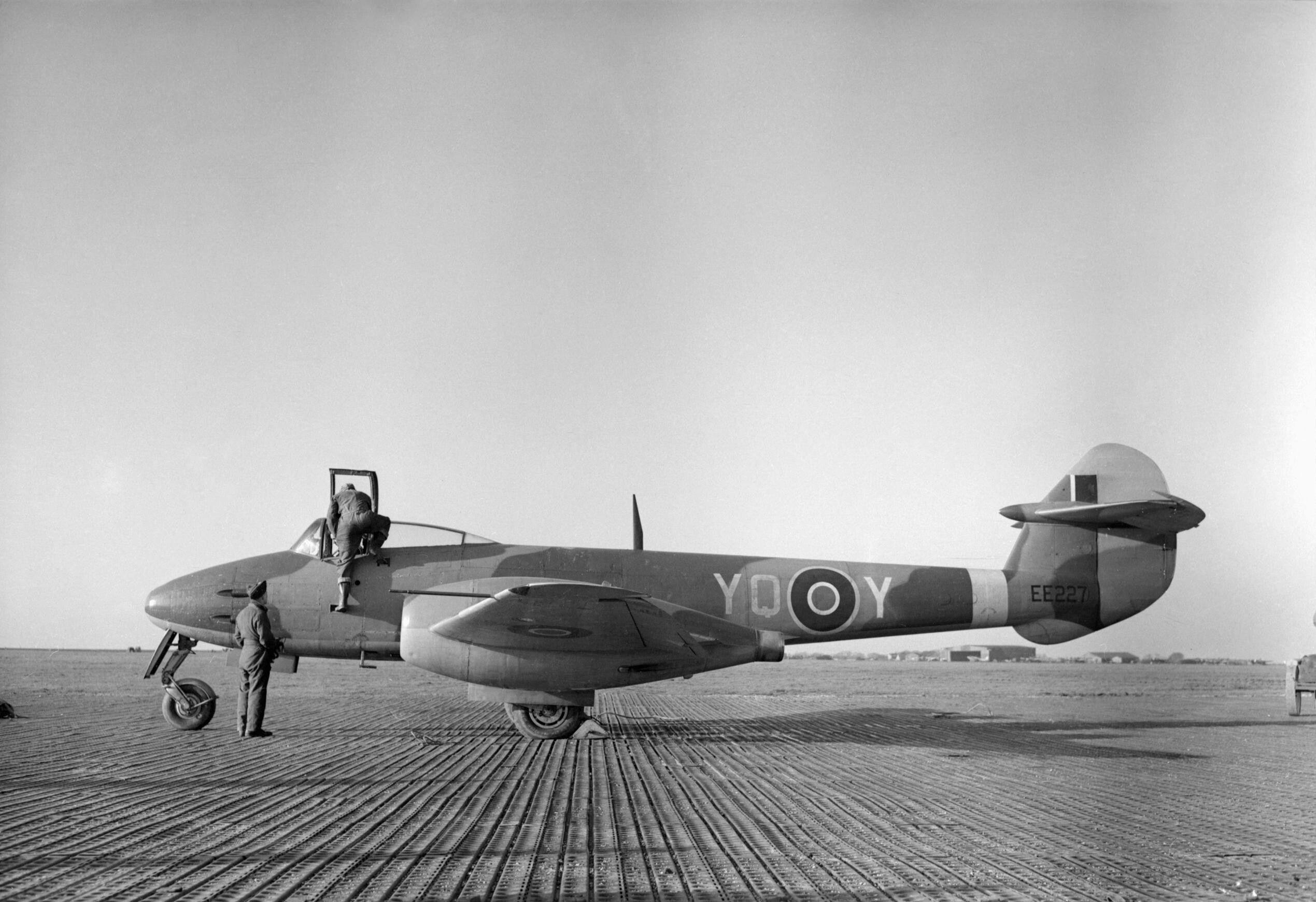 Aircraft of the Royal Air Force, 1939-1945- Gloster Meteor. Meteor F Mark I, EE227 ‘YQ-Y’, of No. 616 Squadron RAF, on the ground at Manston, Kent.